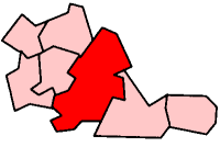 Map showing Birmingham within West Midlands